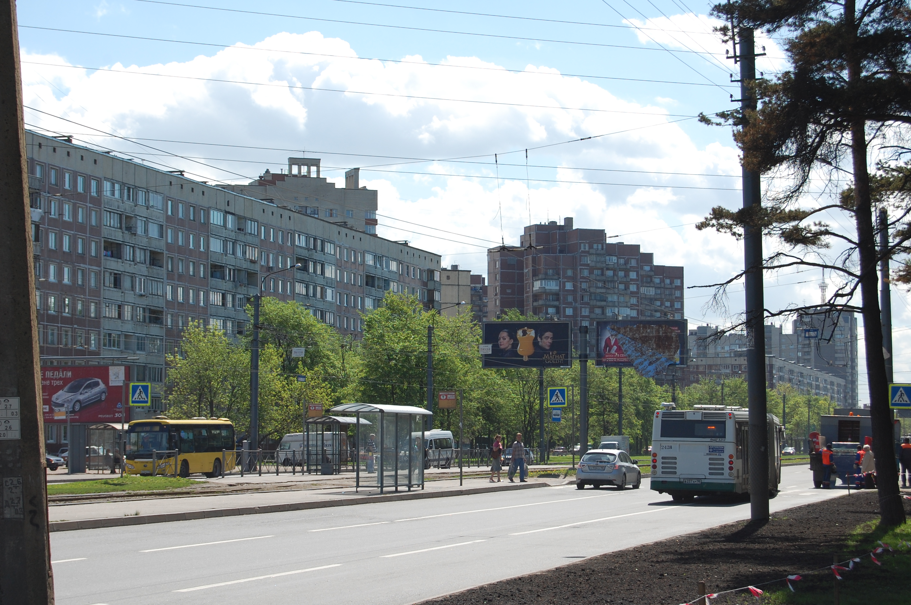 The View of Tikhoretsky Ave.